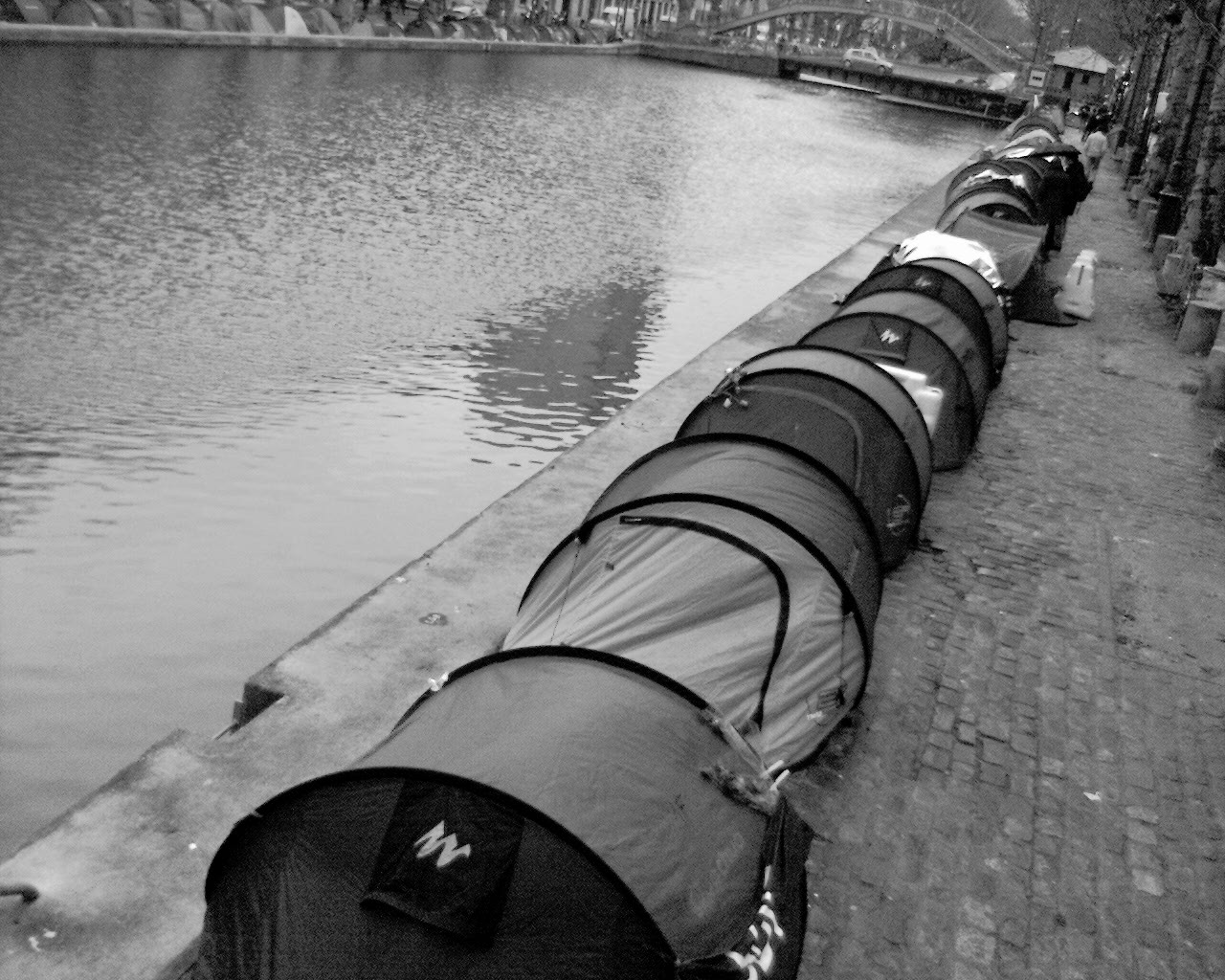 Homeless people tents, Paris.